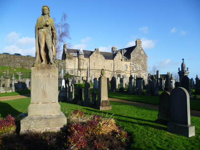 Ebenezer Erskine statue by Handyside Ritchie statue, Old Town Cemetery, Stirling